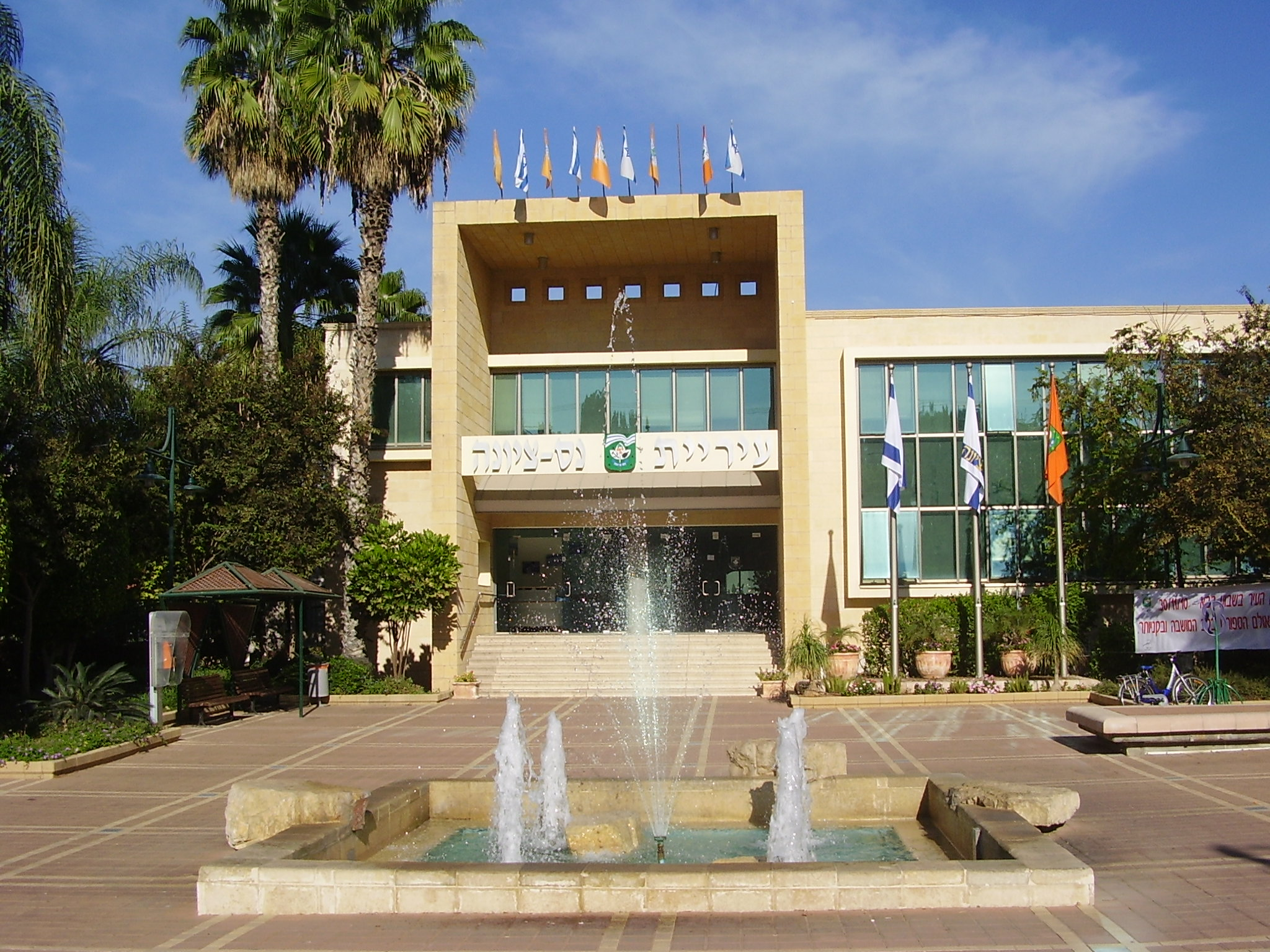 Ness Ziona municipality